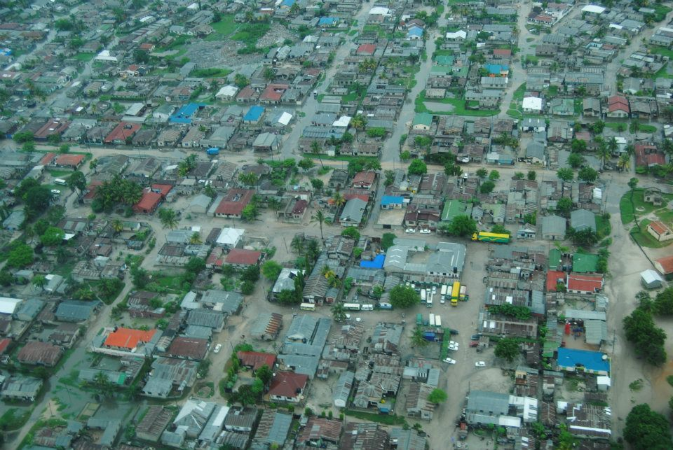 Check out these great photos from the Frontier South East Asia Ethical Trail. To find out more info on this amazing opportunity to see an incredible part of the world, visit the Frontier website: bit.ly/xbh1j4